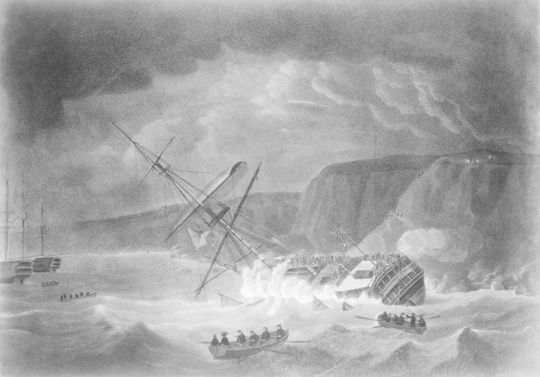 Loss of His Majesty's Ship Venerable... Shipwreck on the Night of the 24th November 1804 on the Rocks in Torbay